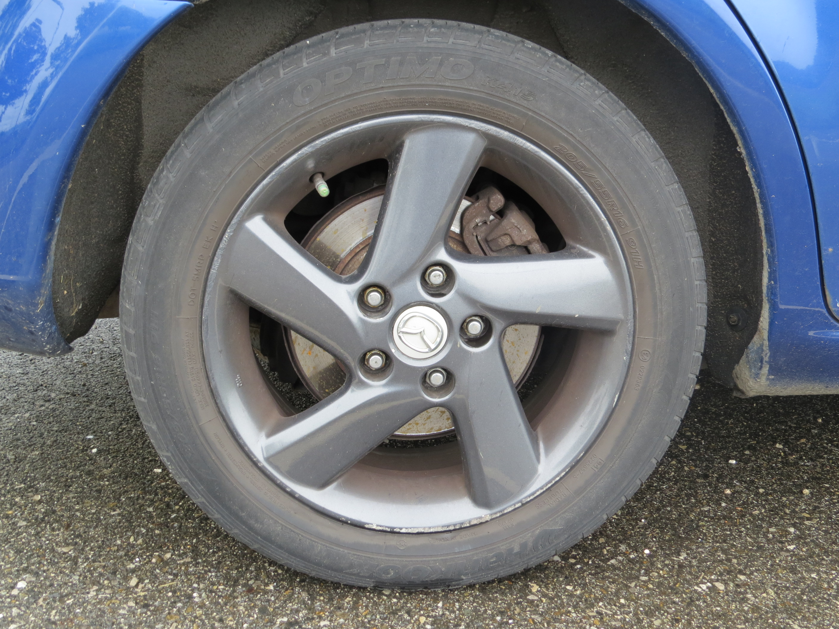 Hankook Optimo K415 205/55 R 16 91 H tire at Bahnhof Ybbs an der Donau